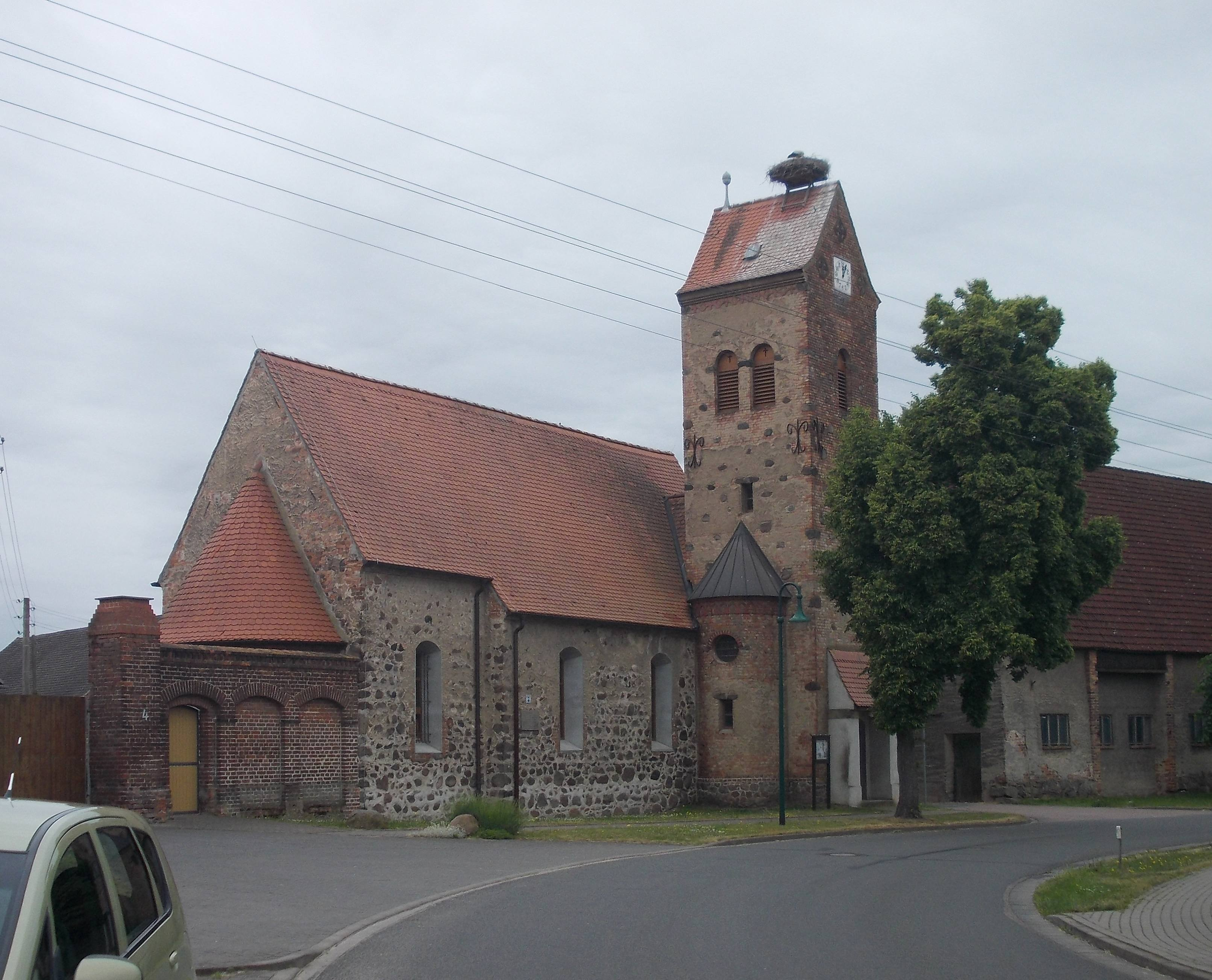 Libbesdorf church (Osternienburger Land, Anhalt-Bitterfeld district, Saxony-Anhalt)